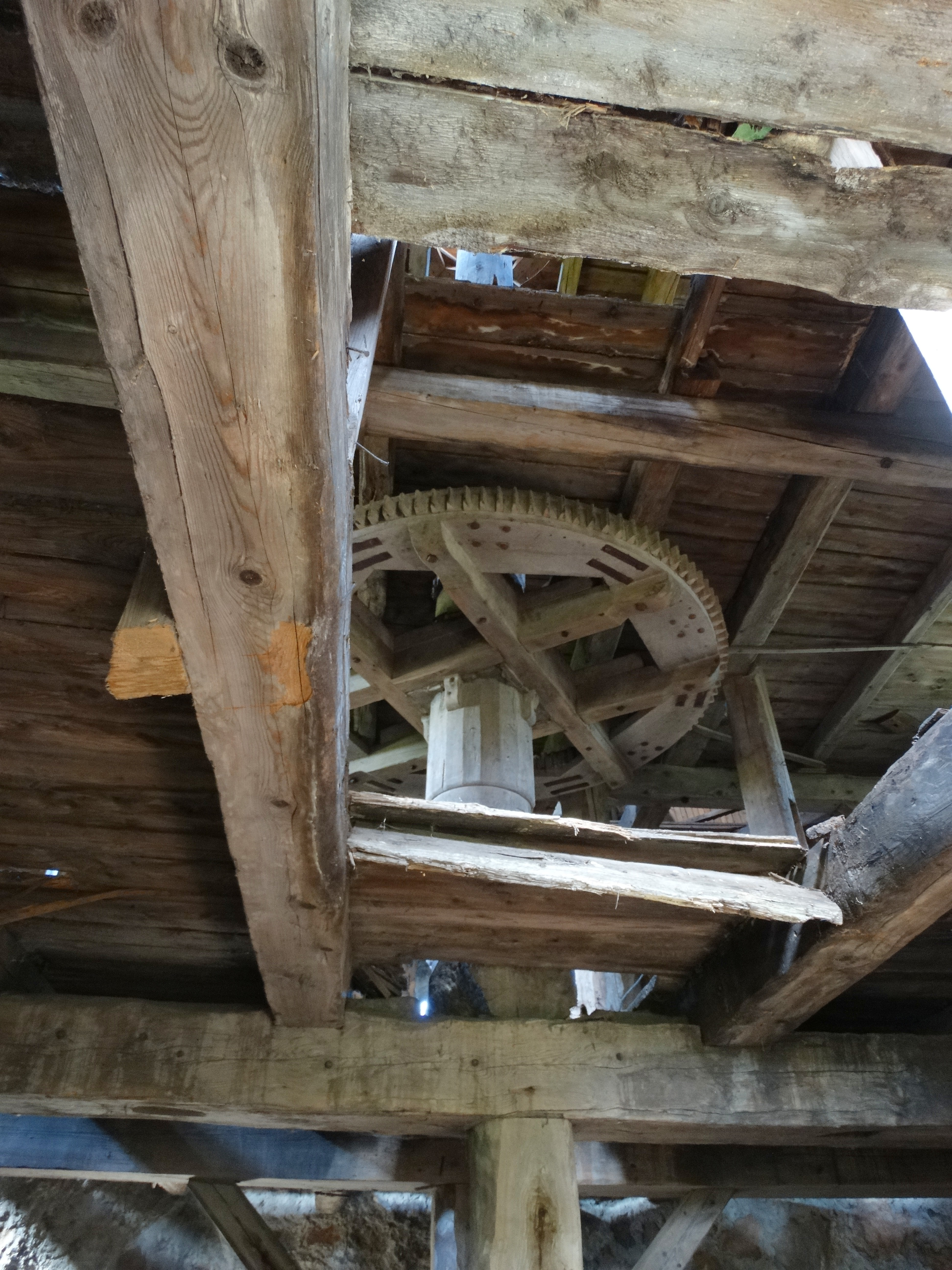 Starkoniai, windmill, Pakruojis district, Lithuania